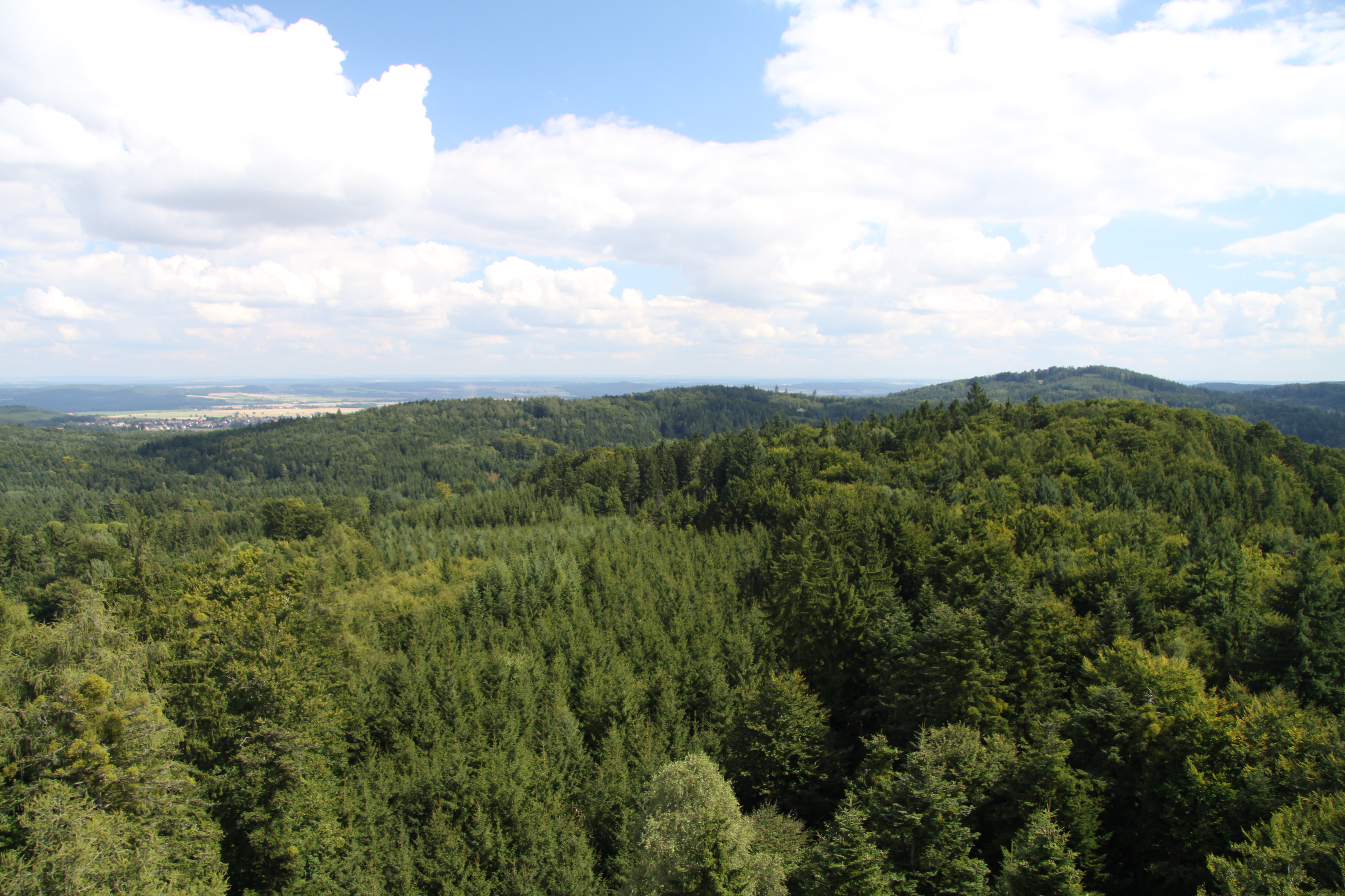 Písecké hory from Javorník tower near Písek town, South Bohemia, Czech Republic